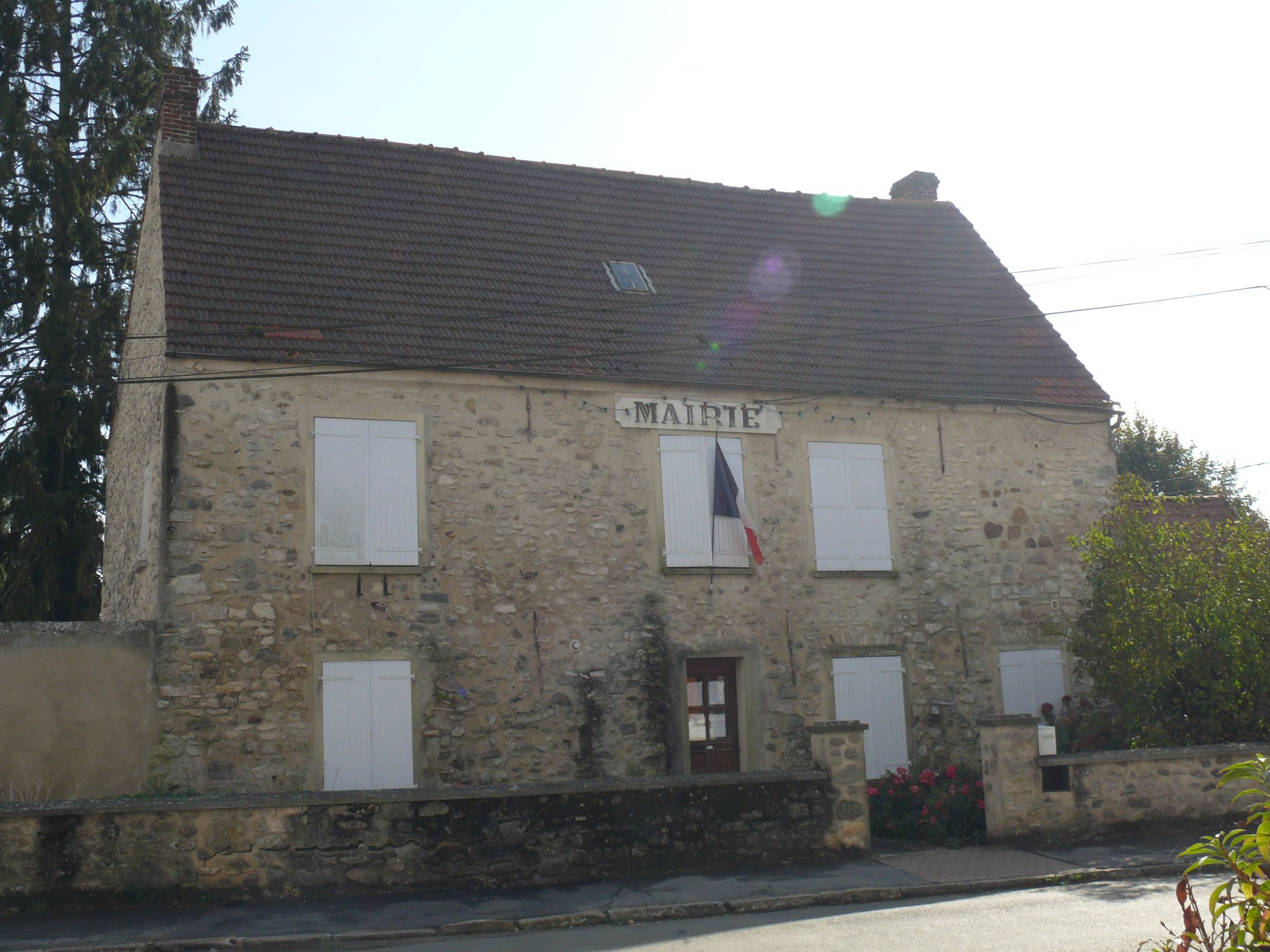 The city hall of Ognes (Oise, Picardie, France).